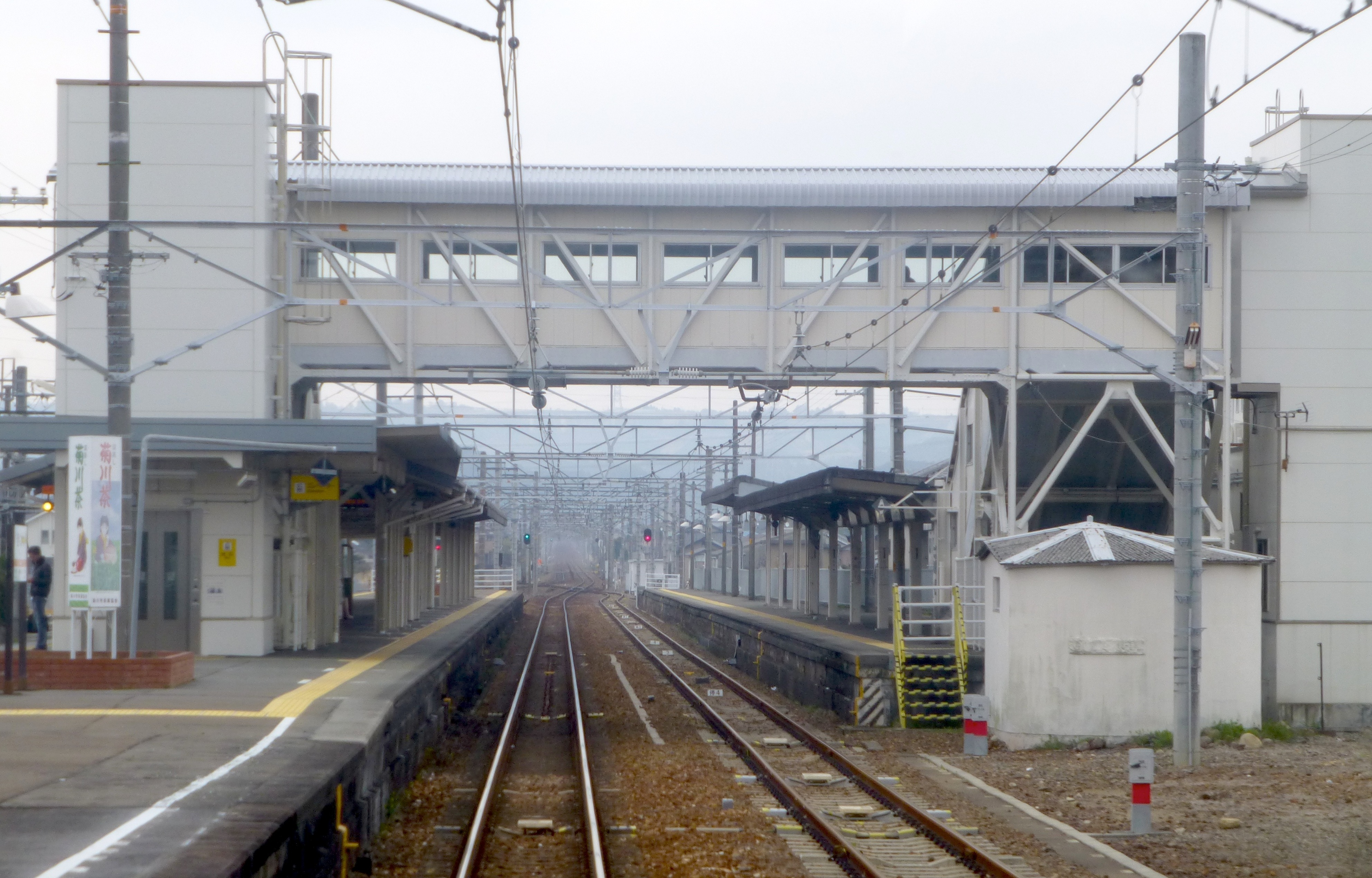 Kikugawa station (菊川駅） --- showing the station platforms.